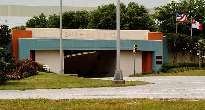 The west end of the 7-mile, twin slab, I-10 bridge ends here at this east entrance into Bankhead Tunnel. Converging at this same point is the old U.S. 98 "Causeway" that rose barely above water level. Sometime in the not so distant past, this entrance was given a face lift and the pretty landscaping. Until the twin tube, I-10 tunnel was operational, motorists had to pay 25 cents to pass through the tunnel. I think an extra 10 cents was added per axle. The money was used for maintenance of the tunnel.